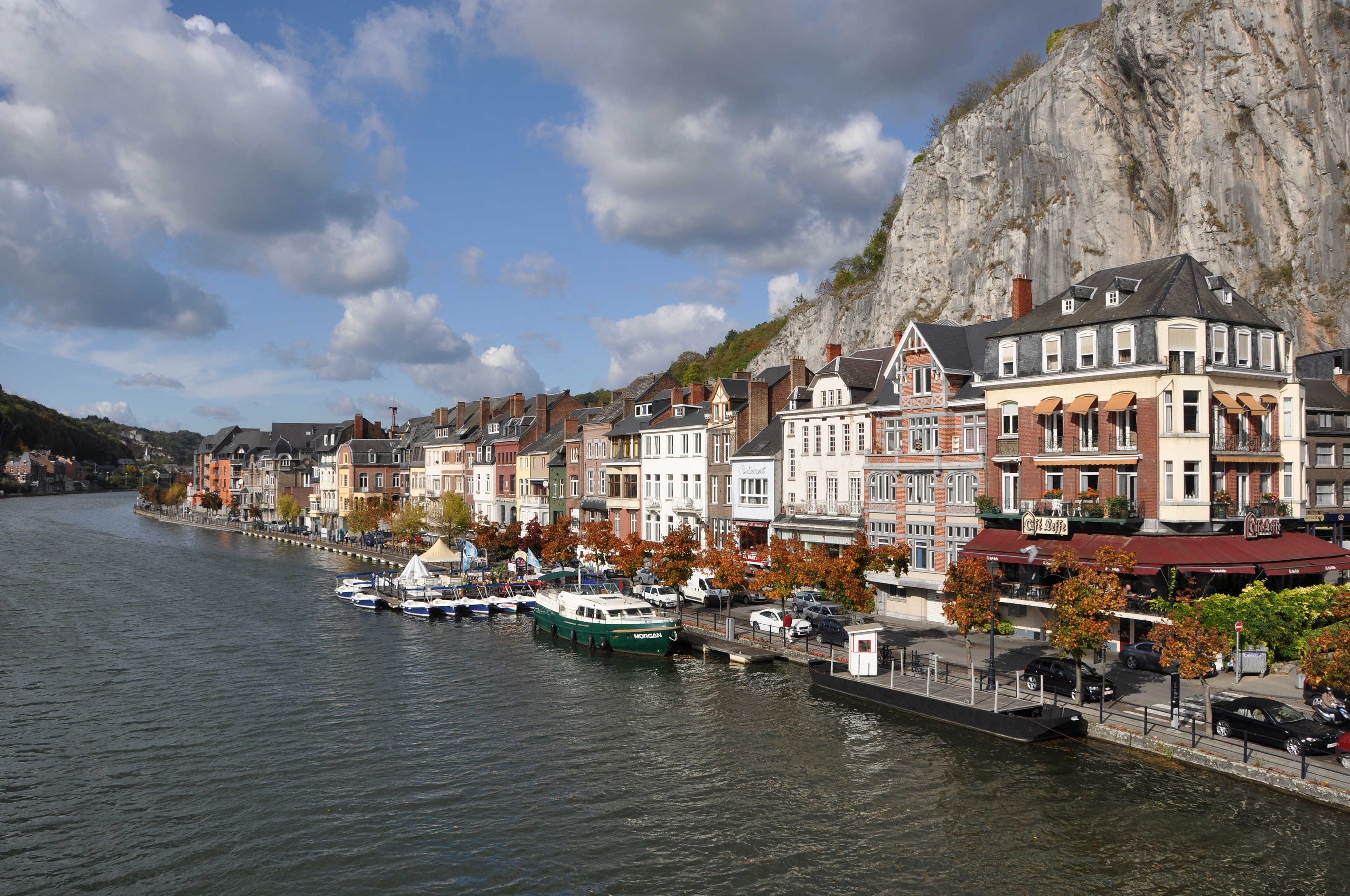 Dinant (Belgium) : Meuse embankment